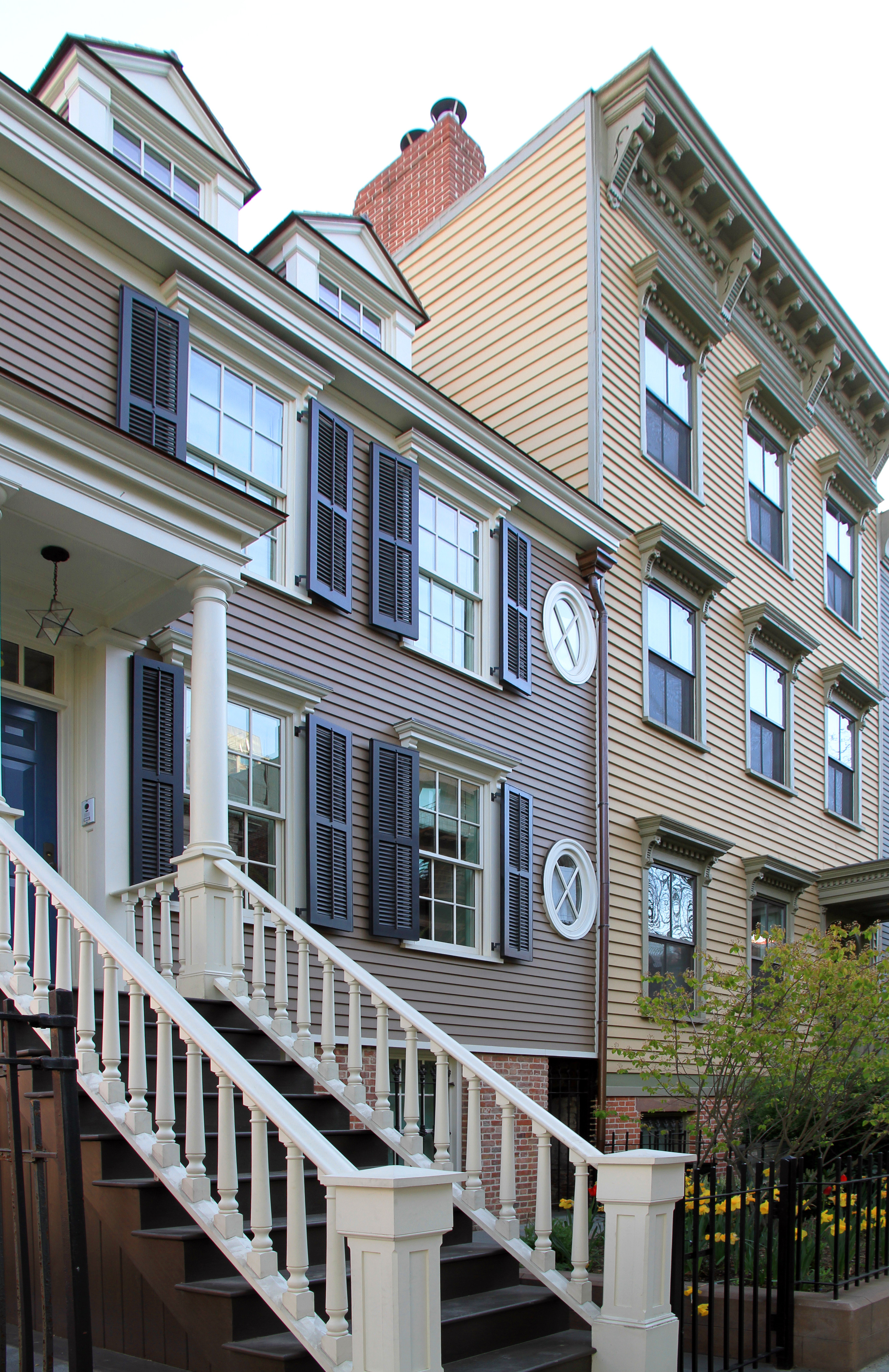 Brooklyn Heights - Middagh Street